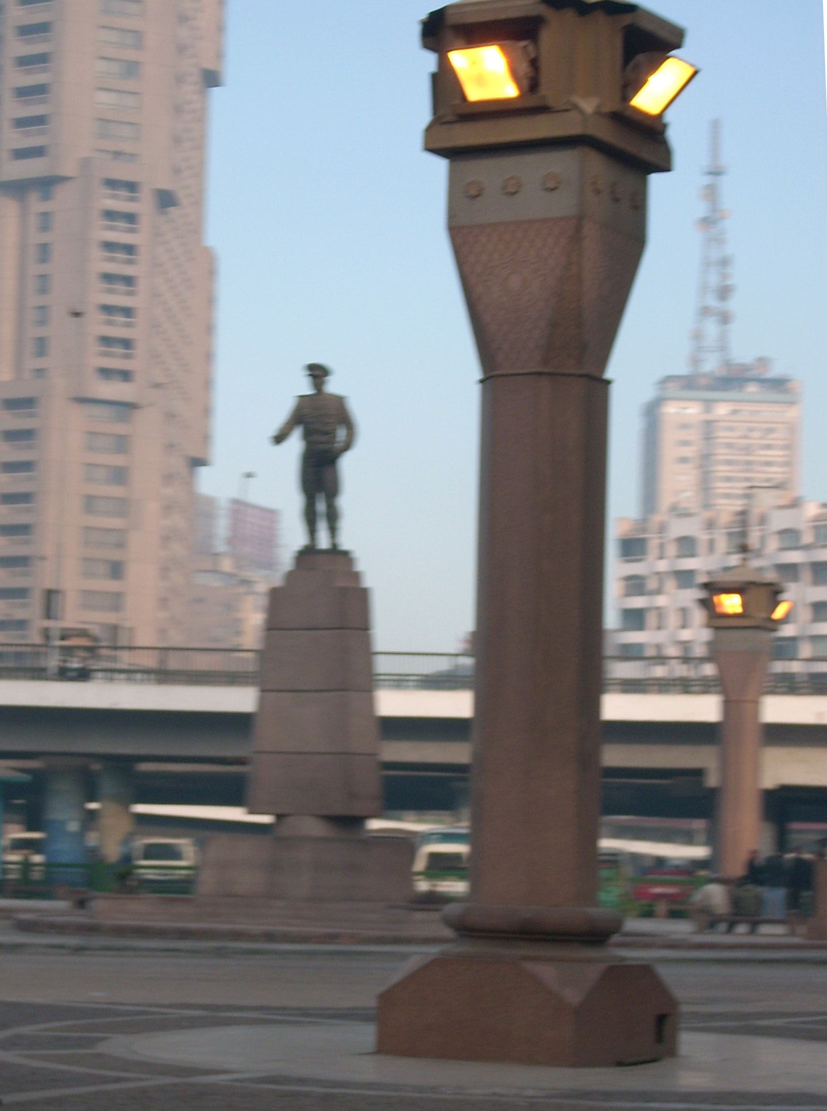 Abdul Moneim Reyad Statue- Tahrir square -Cairo